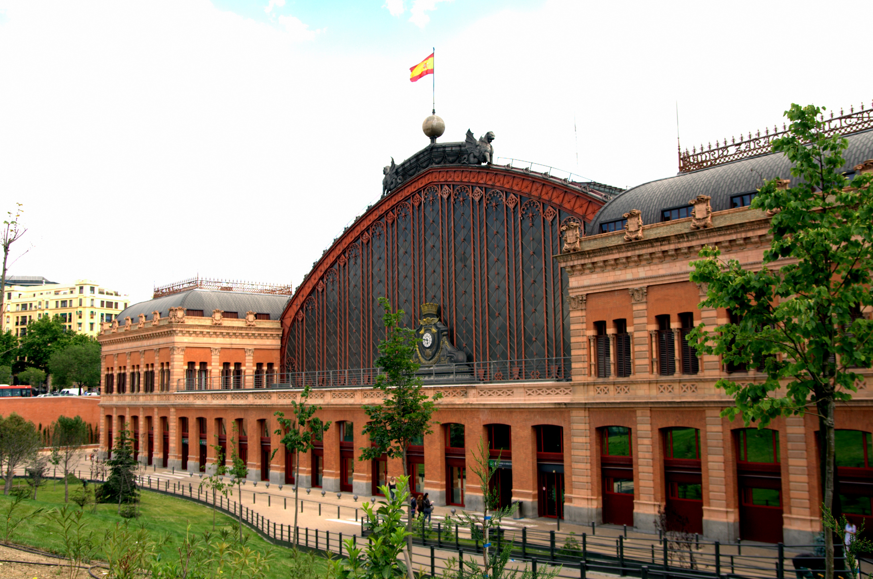 North-West façade of Atocha railway station in Madrid (Spain). Building was projected in 1888 by architect Alberto de Palacio y Elissague (1856–1936) and engineer Henry Saint James, and built from 1890 to 1892.